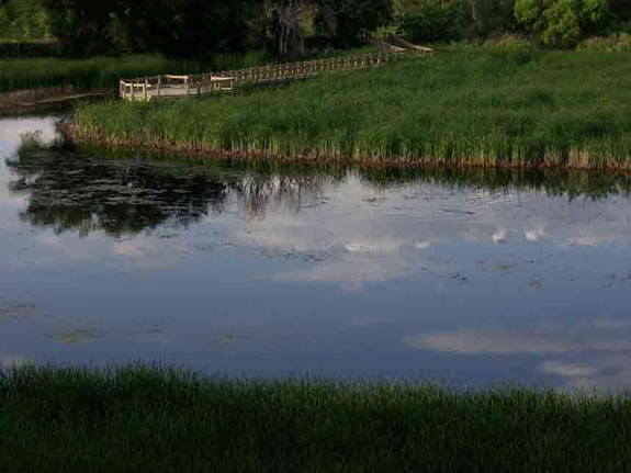 Bluff Lake shows its beauty.